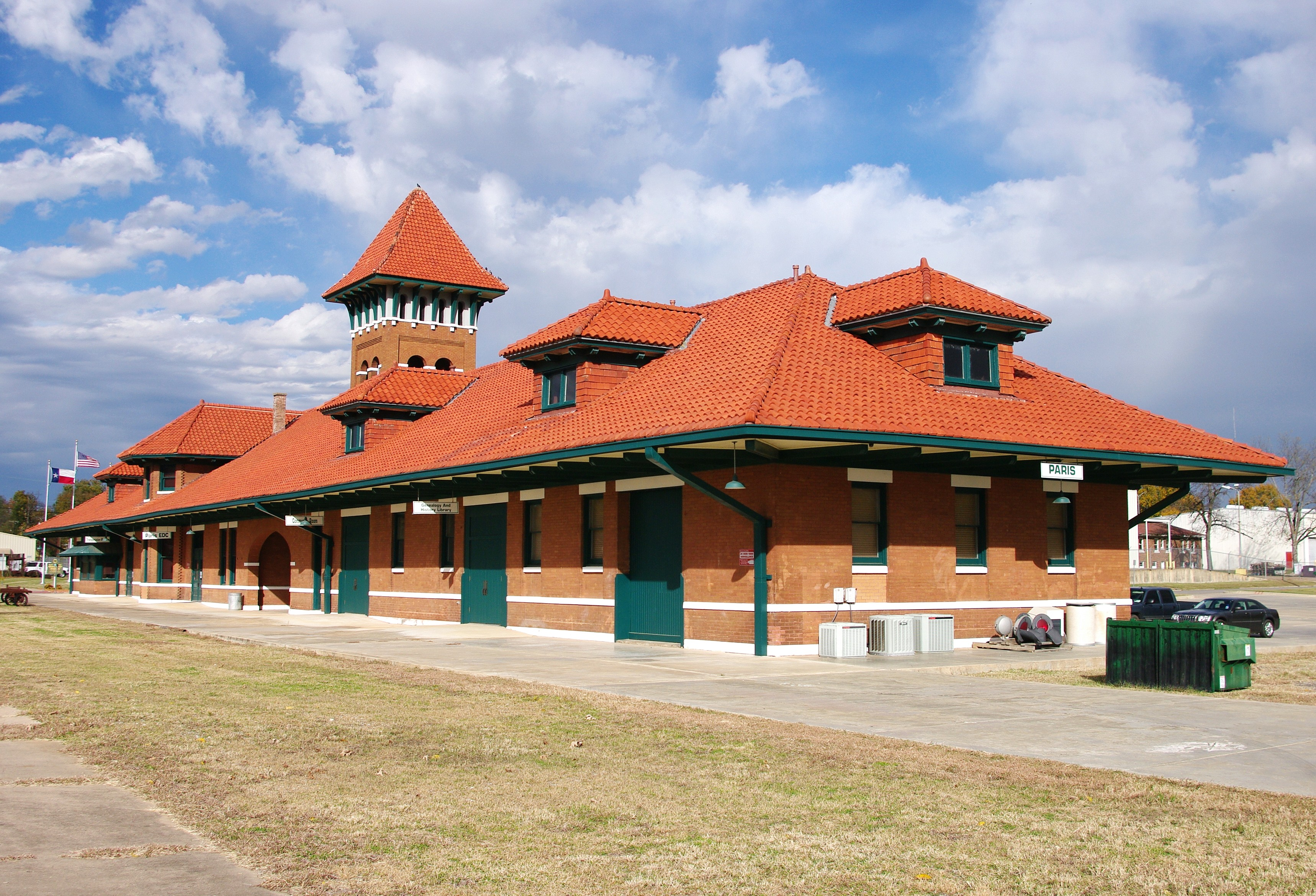 Built in 1912 for Santa Fe and Frisco railroads. Now a museum and City offices along the Kiamichi Railroad.